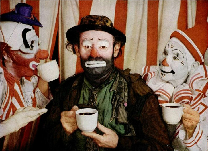 Photo of Emmett Kelly with Ringling Bros. Barnum & Bailey Circus. The photo was taken for an ad for the Pan-American Coffee Bureau.